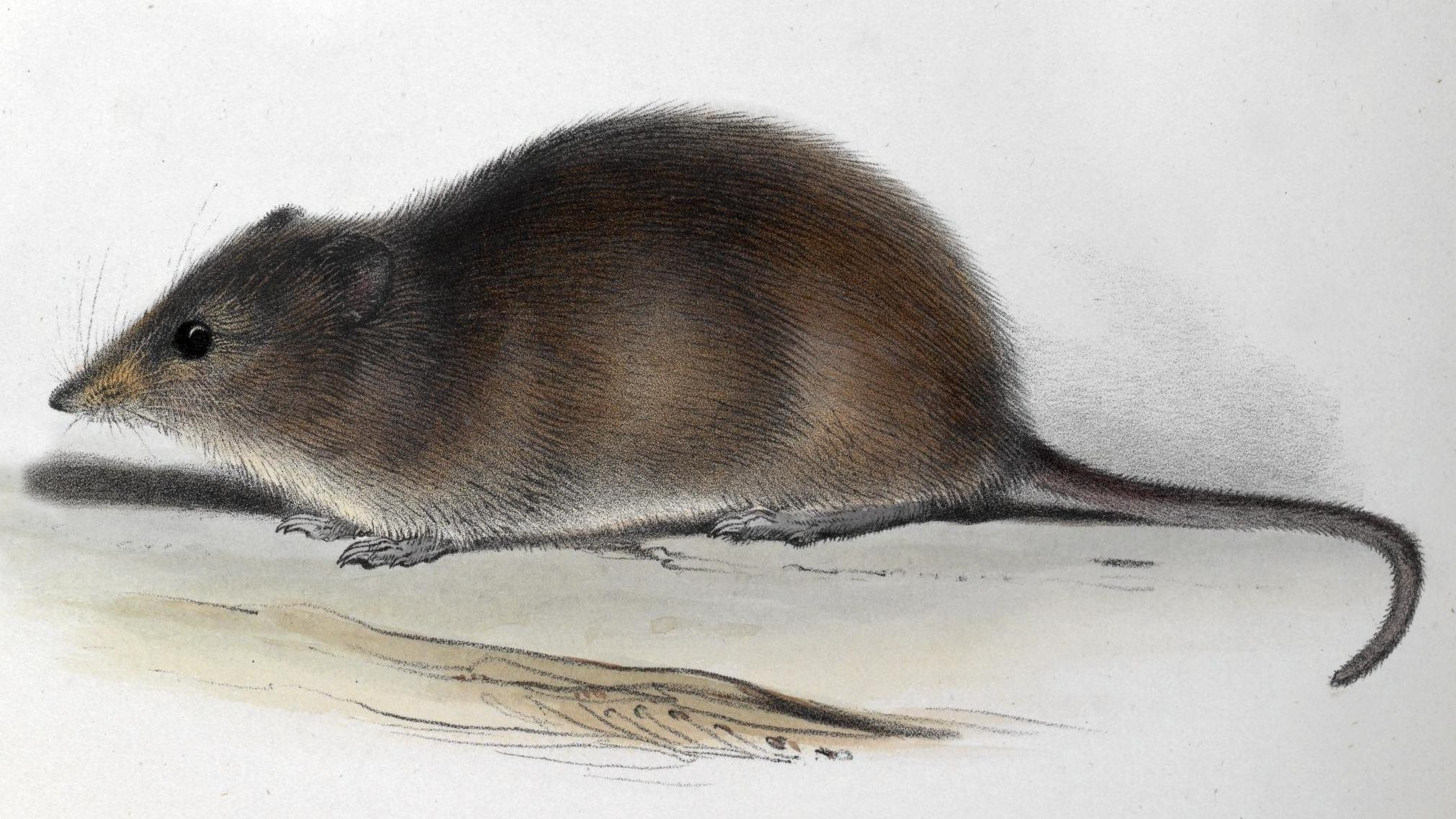 Oxymycterus nasutus. The zoology of the voyage of H.M.S. Beagle ... during the years 1832-1836.